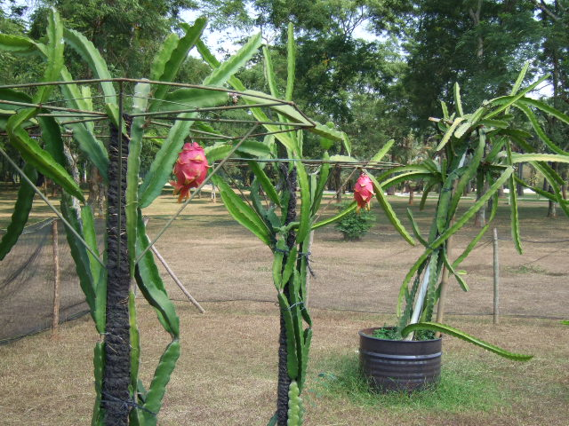 Pitaya (Hylocereus undatus), Mekarsari Tourism Park, Indonesia